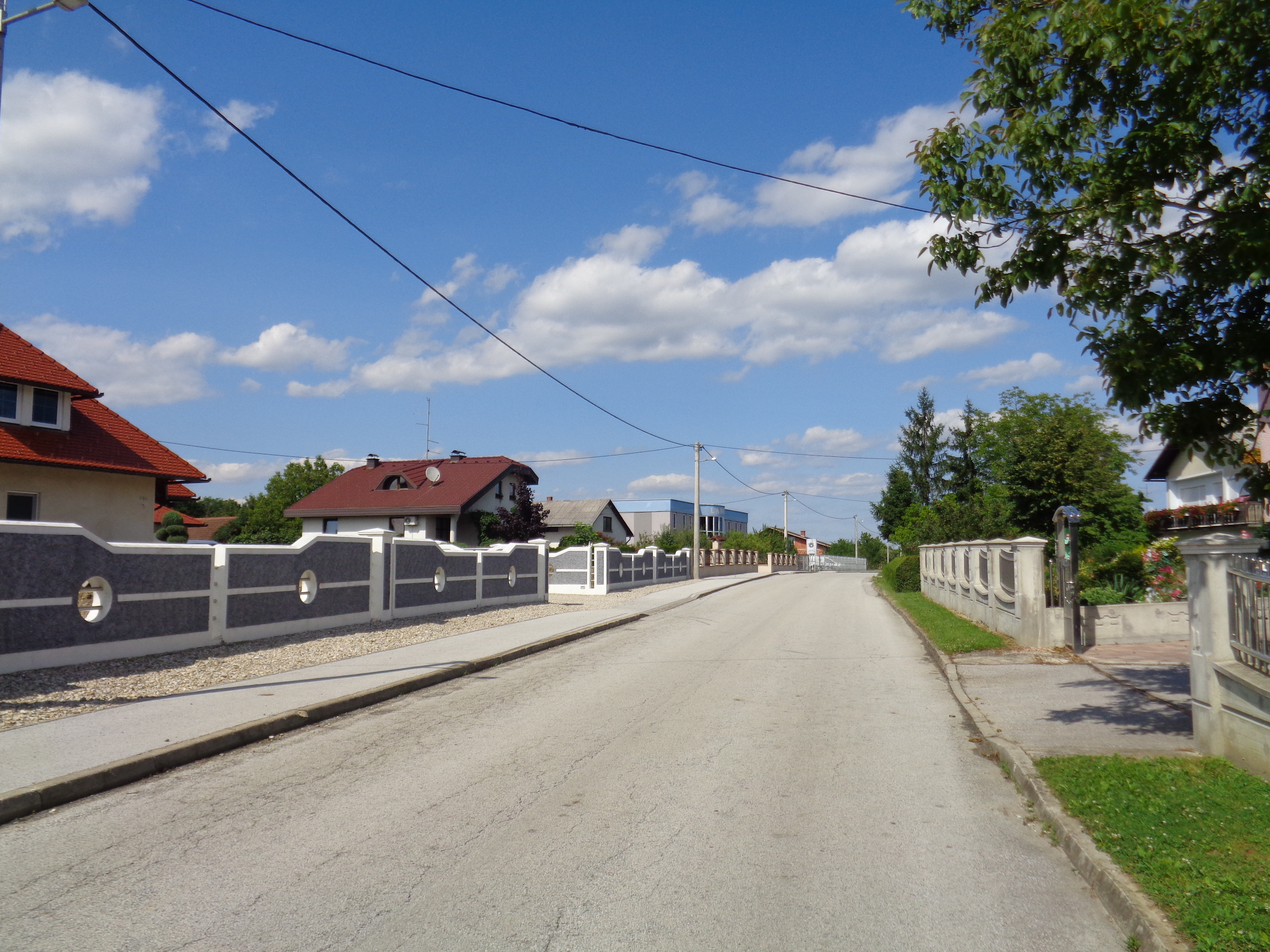 Gornja Dubrava village, Gornji Mihaljevec municipality, Medjimurje County, Croatia - street